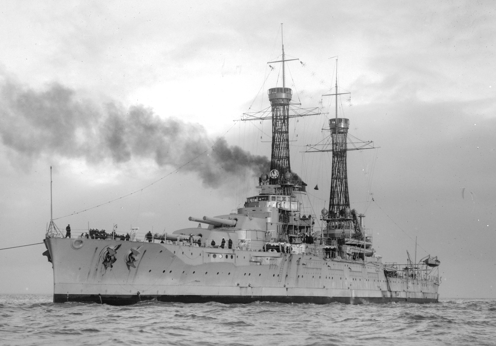 USS Nevada - most likely during visit to Australia